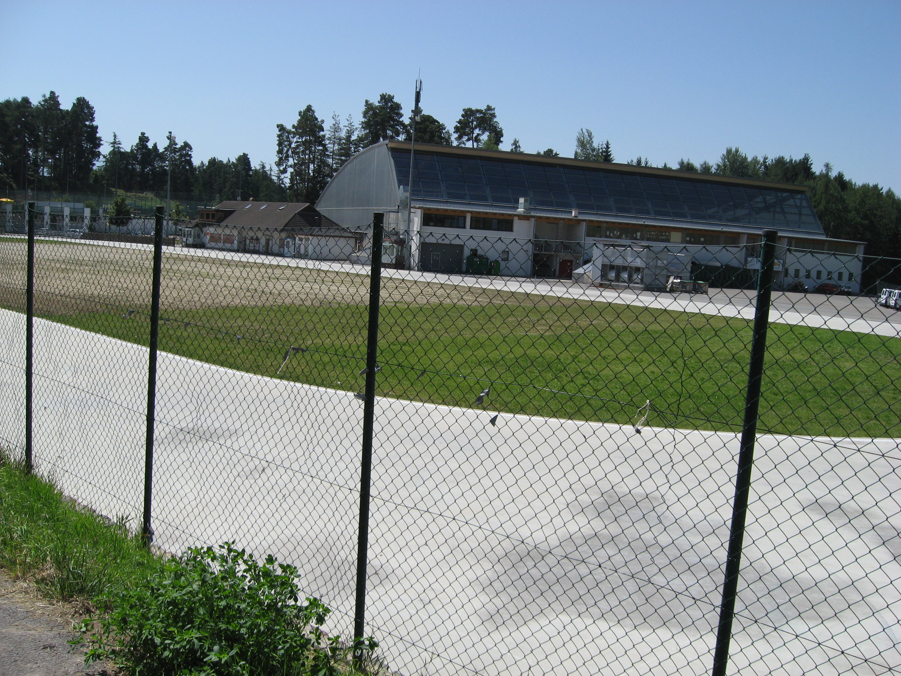 The skating rink of Collalbo in the summer.